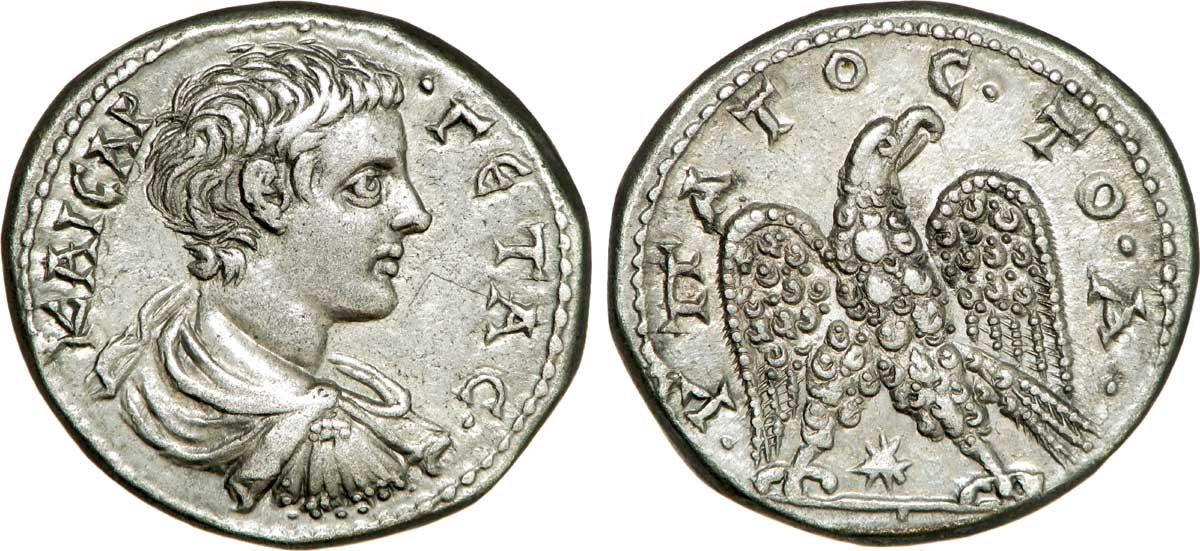 Tétradrachme syro-phénicien à l'effigie de Géta Date : 205-207